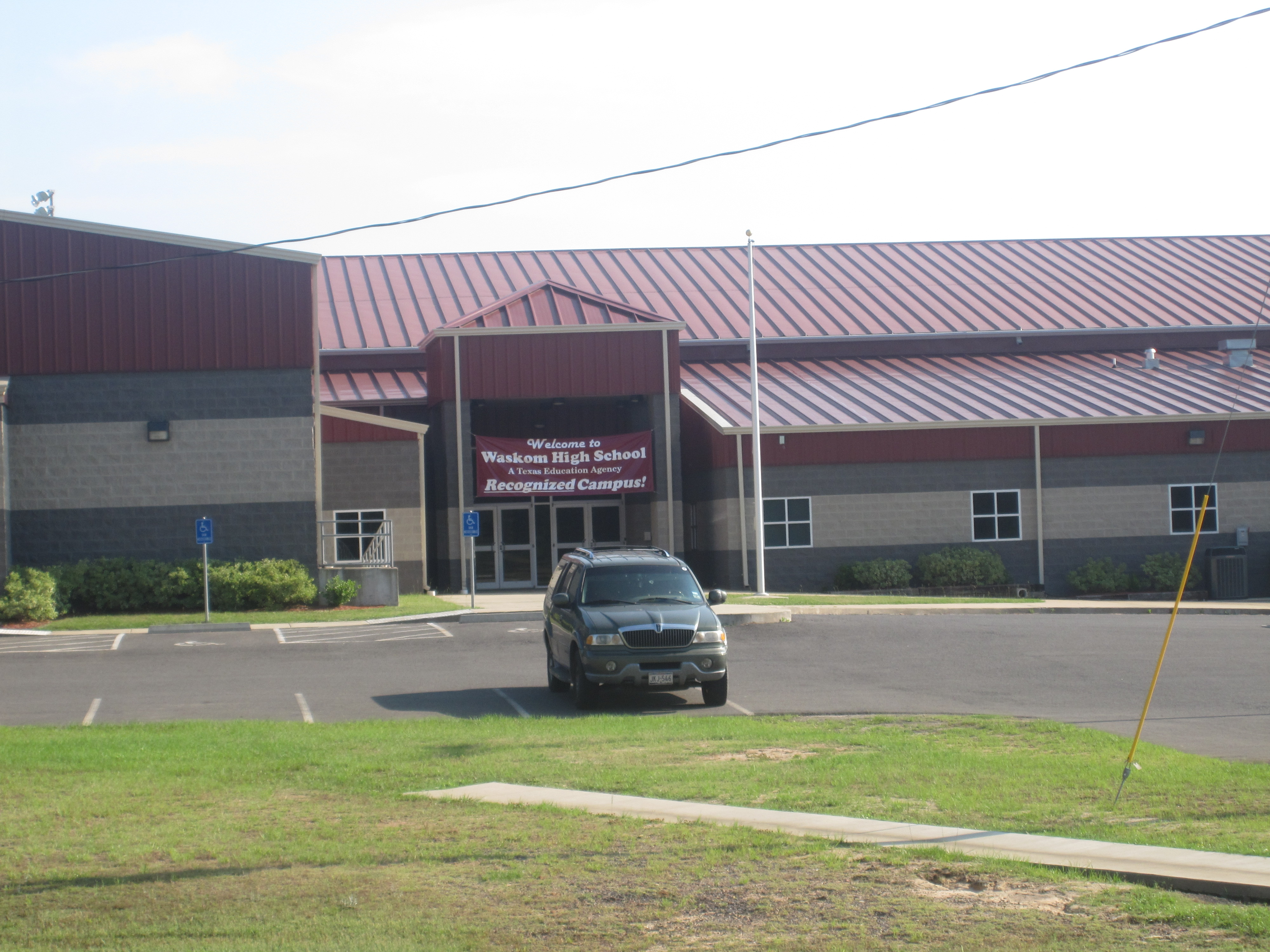 I took photo with Canon camera in Waskom, Texas.